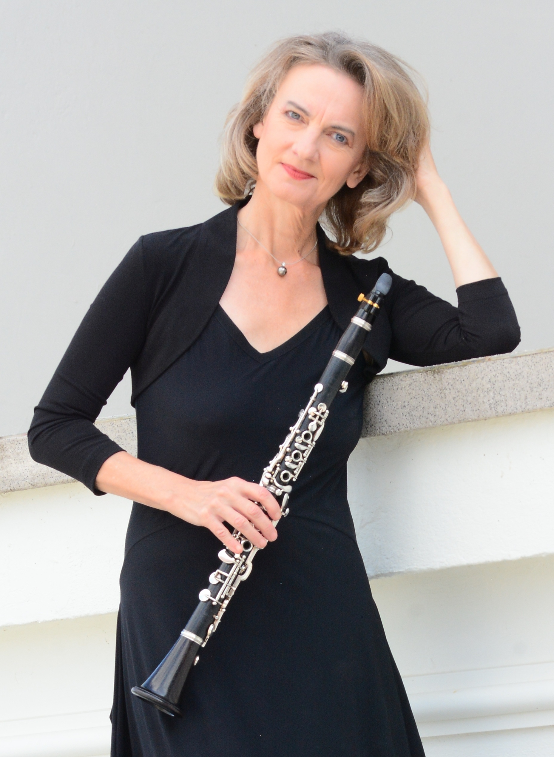 Sabine Meyer, clarinetist